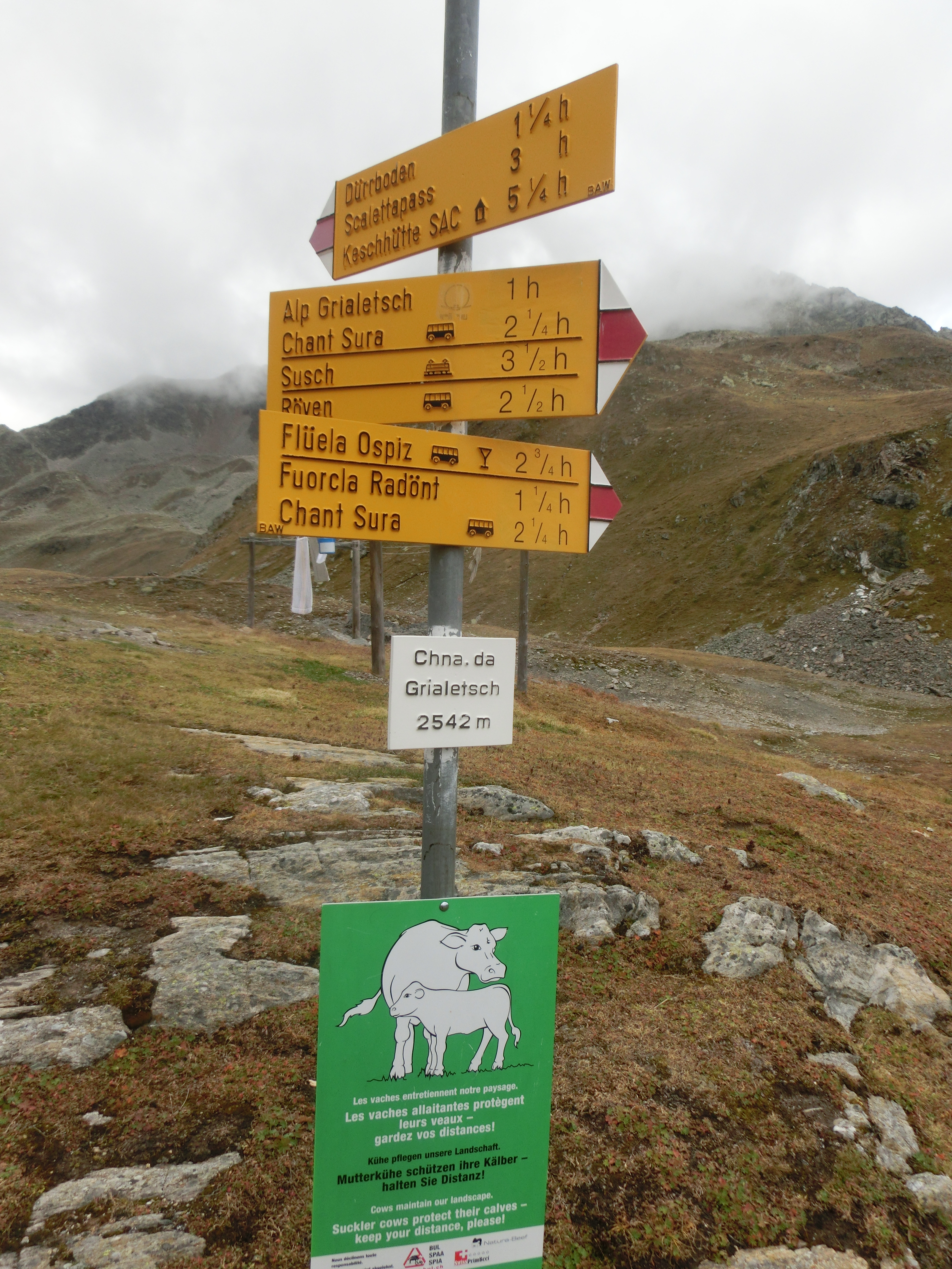 Fingerpost near Chamanna da Grialetsch SAC, Susch, Grison, Switzerland